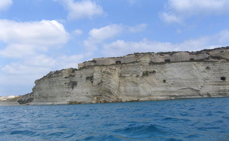 (Fort Delimara From Marsaxlokk Bay. Copyright H.J.Moyes Sept 2005. All Rights Reserved)